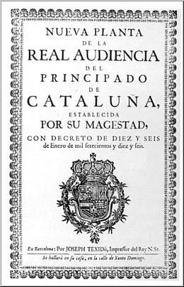 Nova Planta Decrees. They changed the political structures of Spain in 1716. Note: Full text of the Catalunya Decree (1716) can be found at